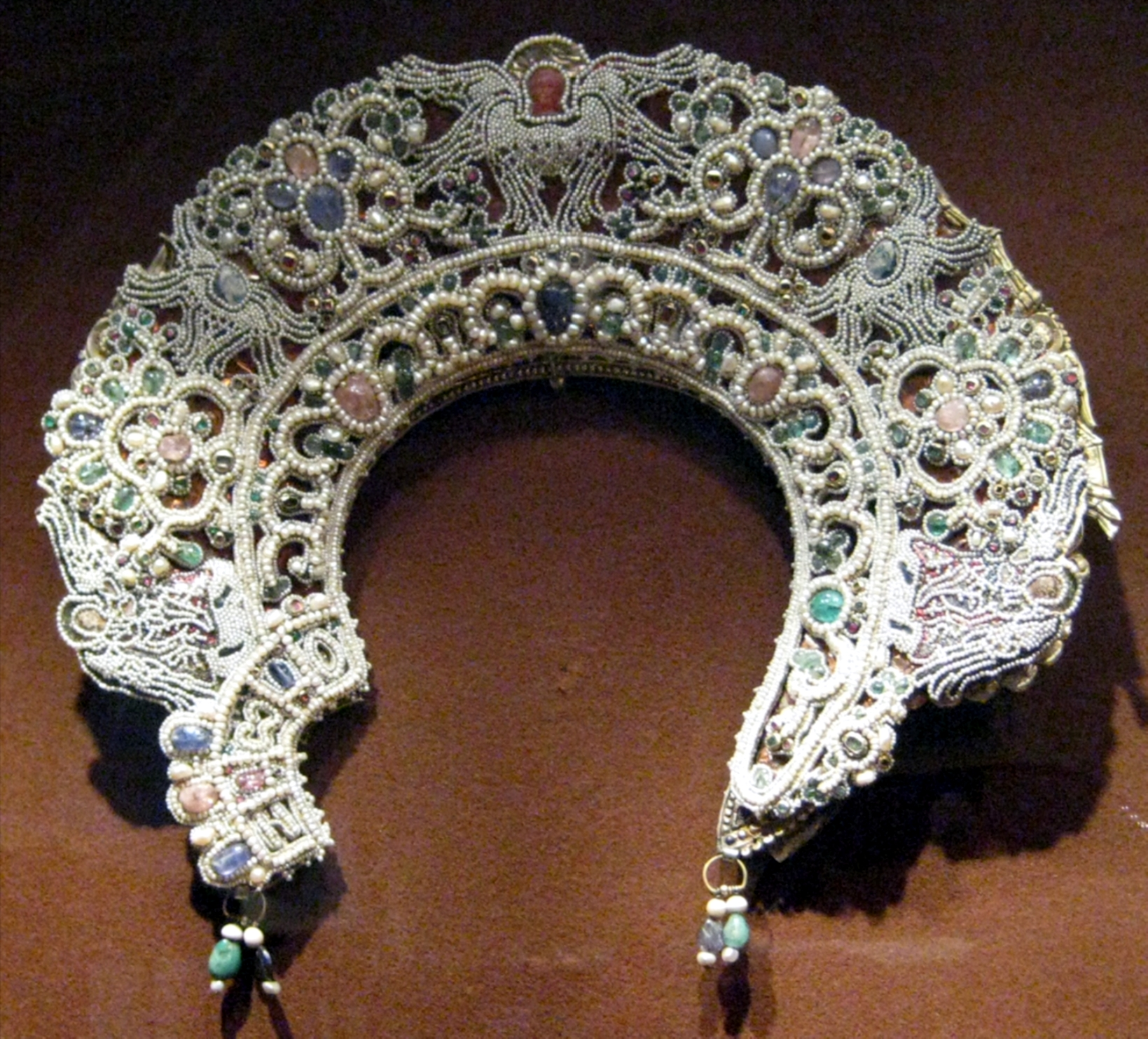 Venets of Riza, Жемчужный венец ризы. Патриаршее подворье.